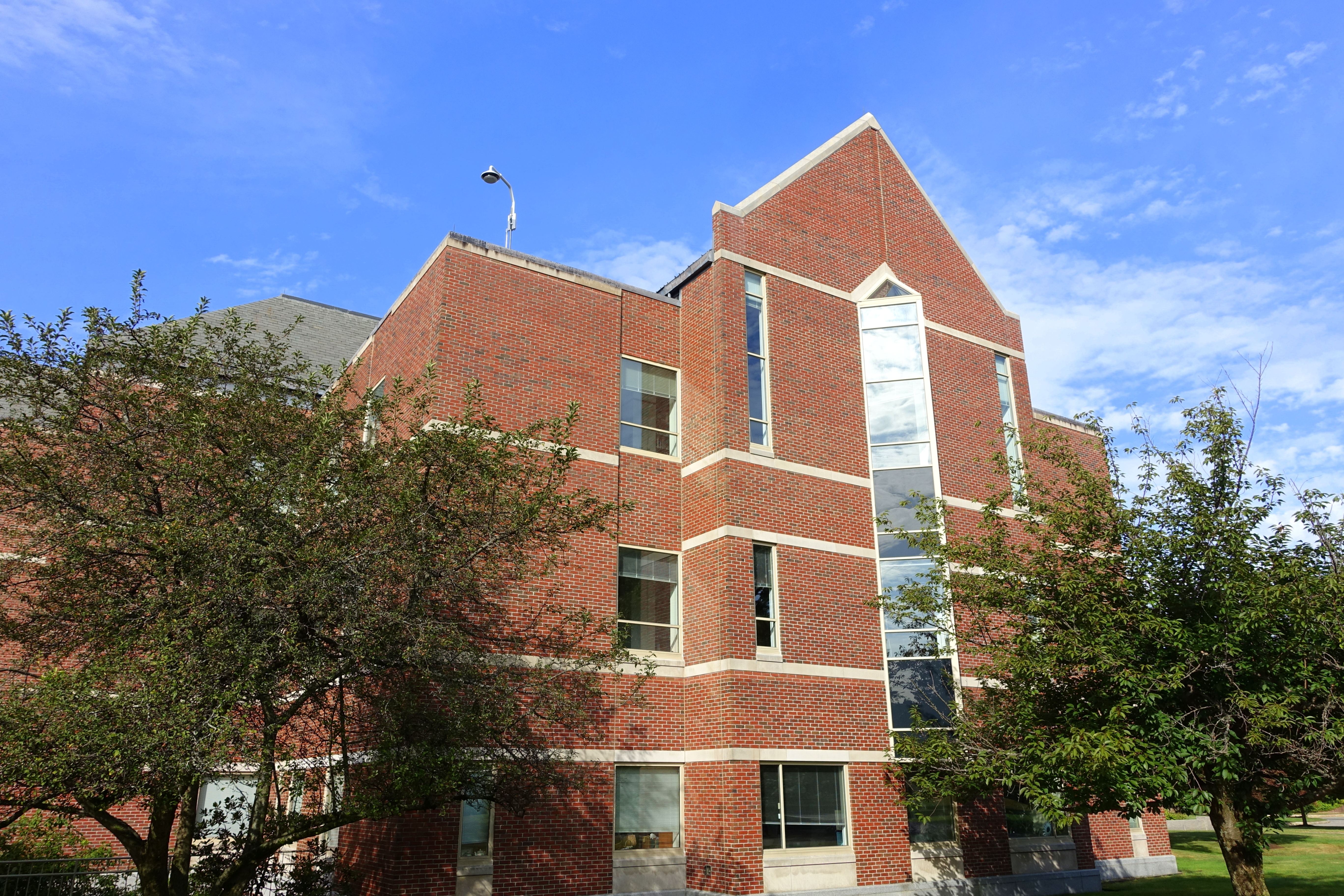 Boston College Law Library - Boston College Law School - Newton Centre, Massachusetts, USA.